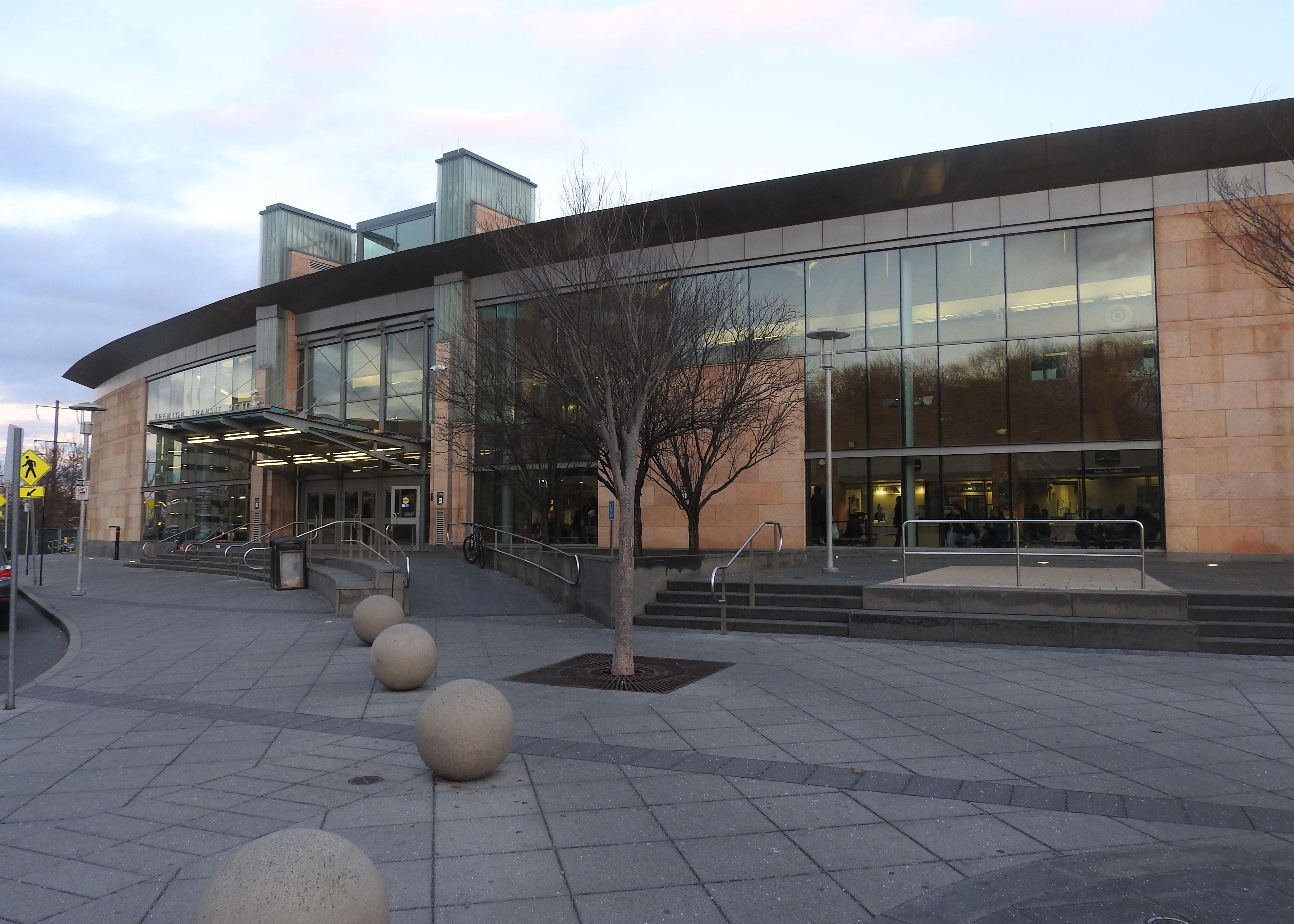 Looking east at northwestern face of station near dusk